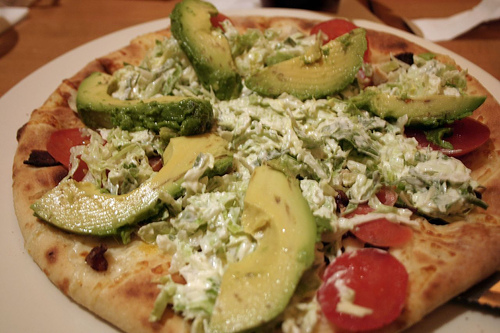 We went to California Pizza Kitchen and I tried a California Club Pizza. It was absolutely awesome. Totally unexpected and completely incredible.